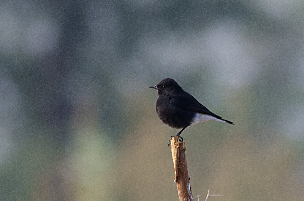 opistholeuca morph of the Variable Wheatear clicked in Tal Chappar, Rajasthan